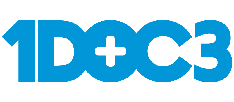 This is the logo from the company 1doc3 in 2019